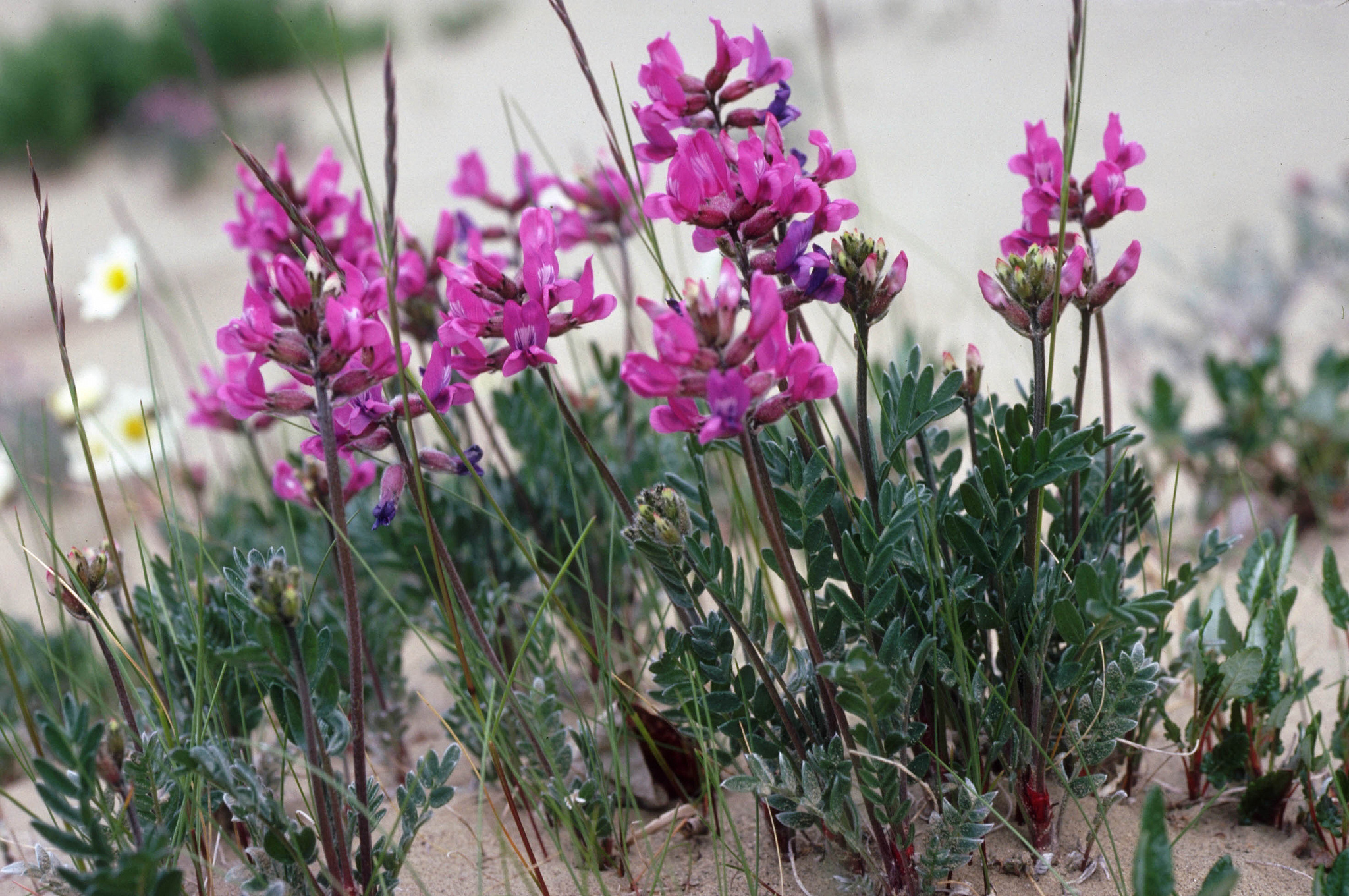 Oxytropis kobukensis grows only in the Kobuk Valley, on and around the sand dunes. Bright pink flowers with green leaves growing in the sand. Kobuk Valley National Park, Alaska